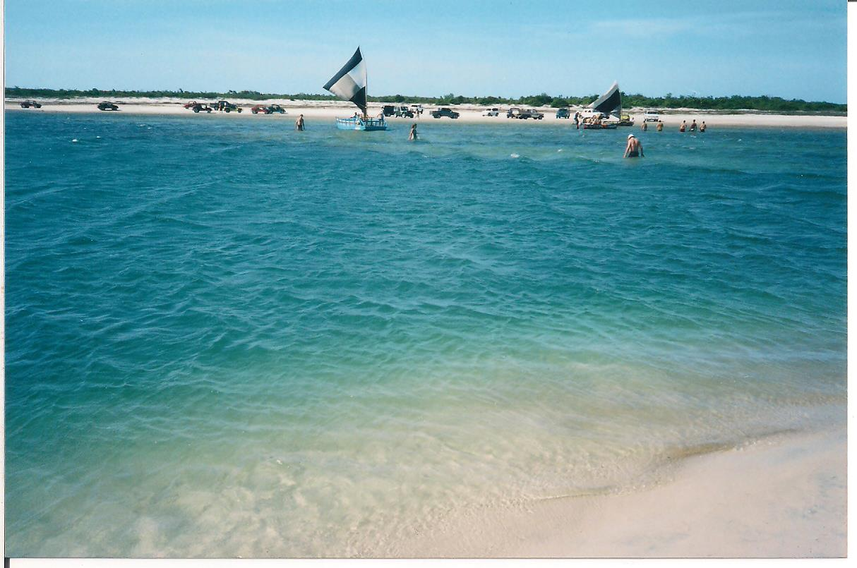 Jericoacoara National Park -Jijoca deJericoacoara (Ceará-Brasil) Sunset Dune and the beach of Jericoacoara Village (great sea for windsurfing).